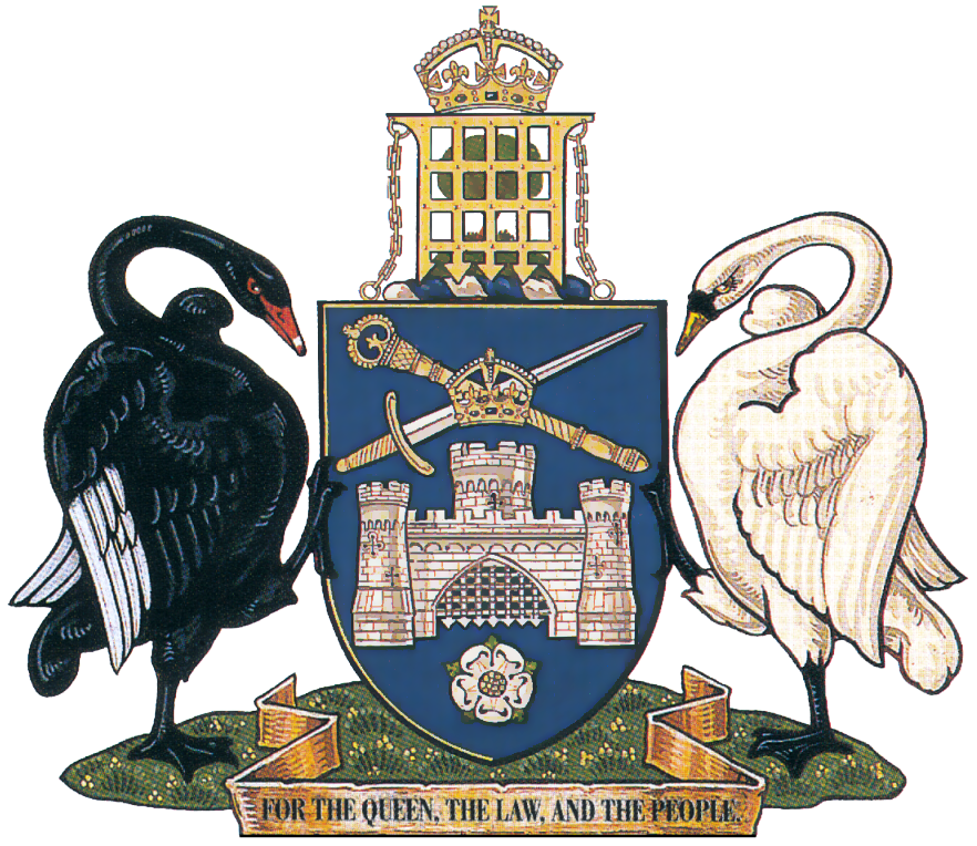 Image of the Coat of Arms of the City of Canberra